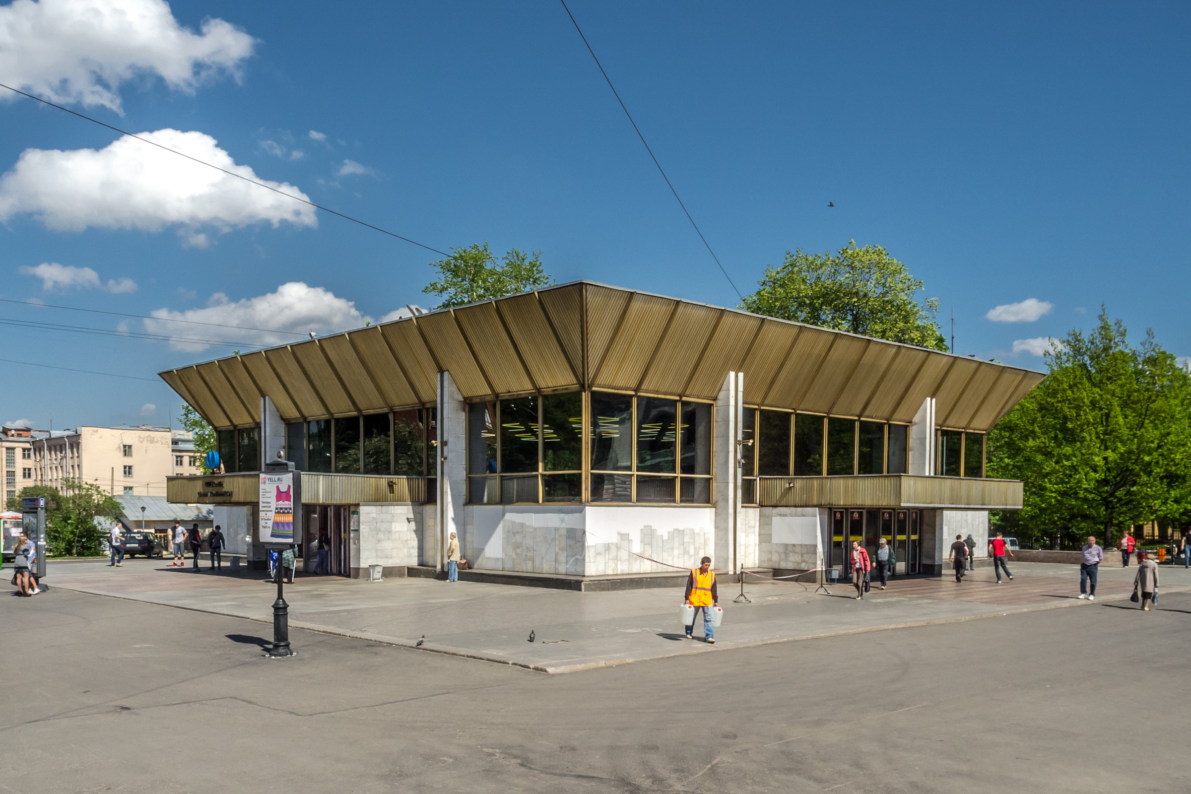 Politekhnicheskaya subway station of Saint Petersburg, pavilion